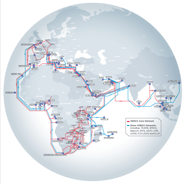 WIOCC Global Network